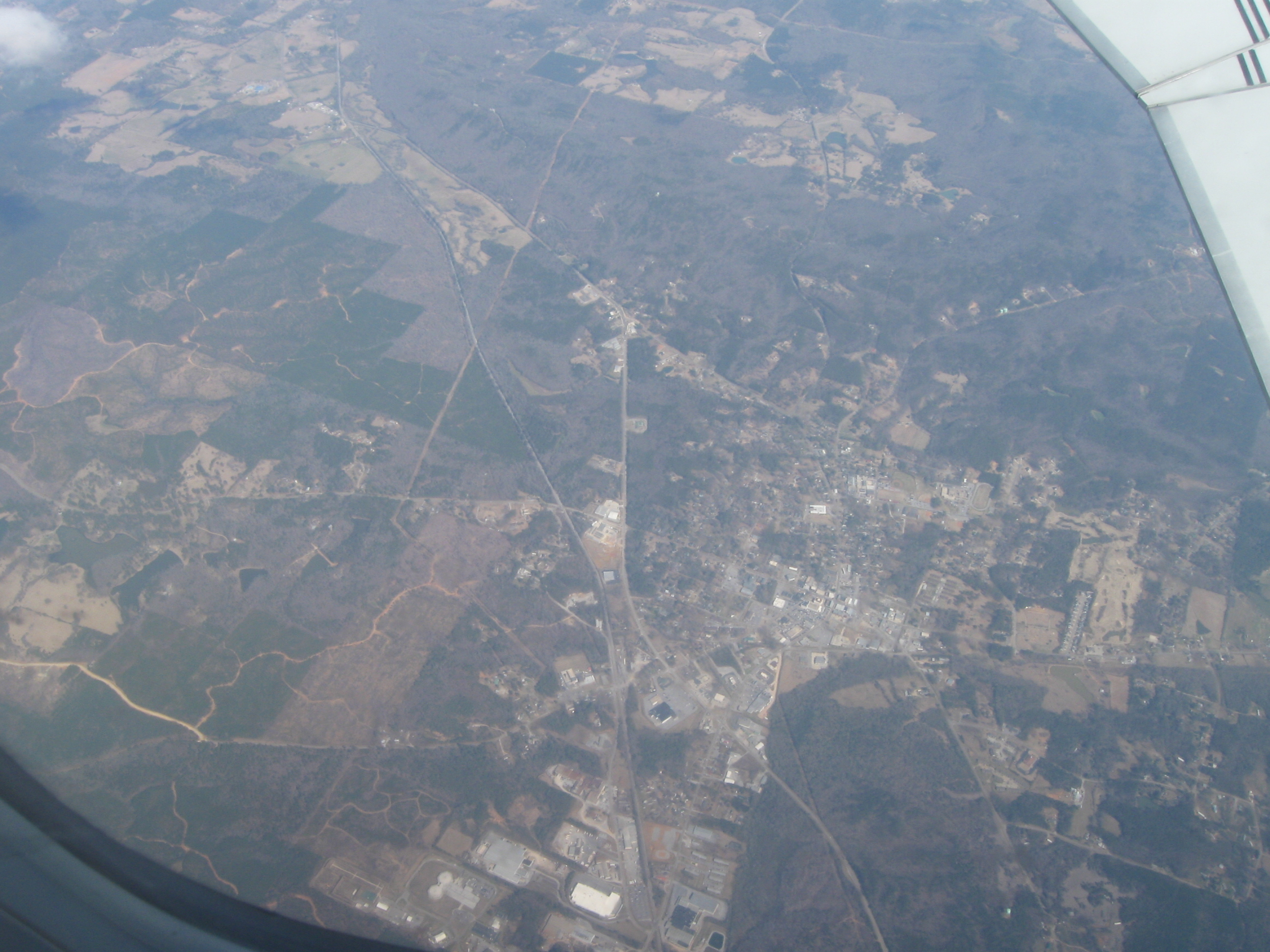 Columbiana, Alabama viewed from Delta Air Lines flight from Birmingham, AL to Atlanta, GA.